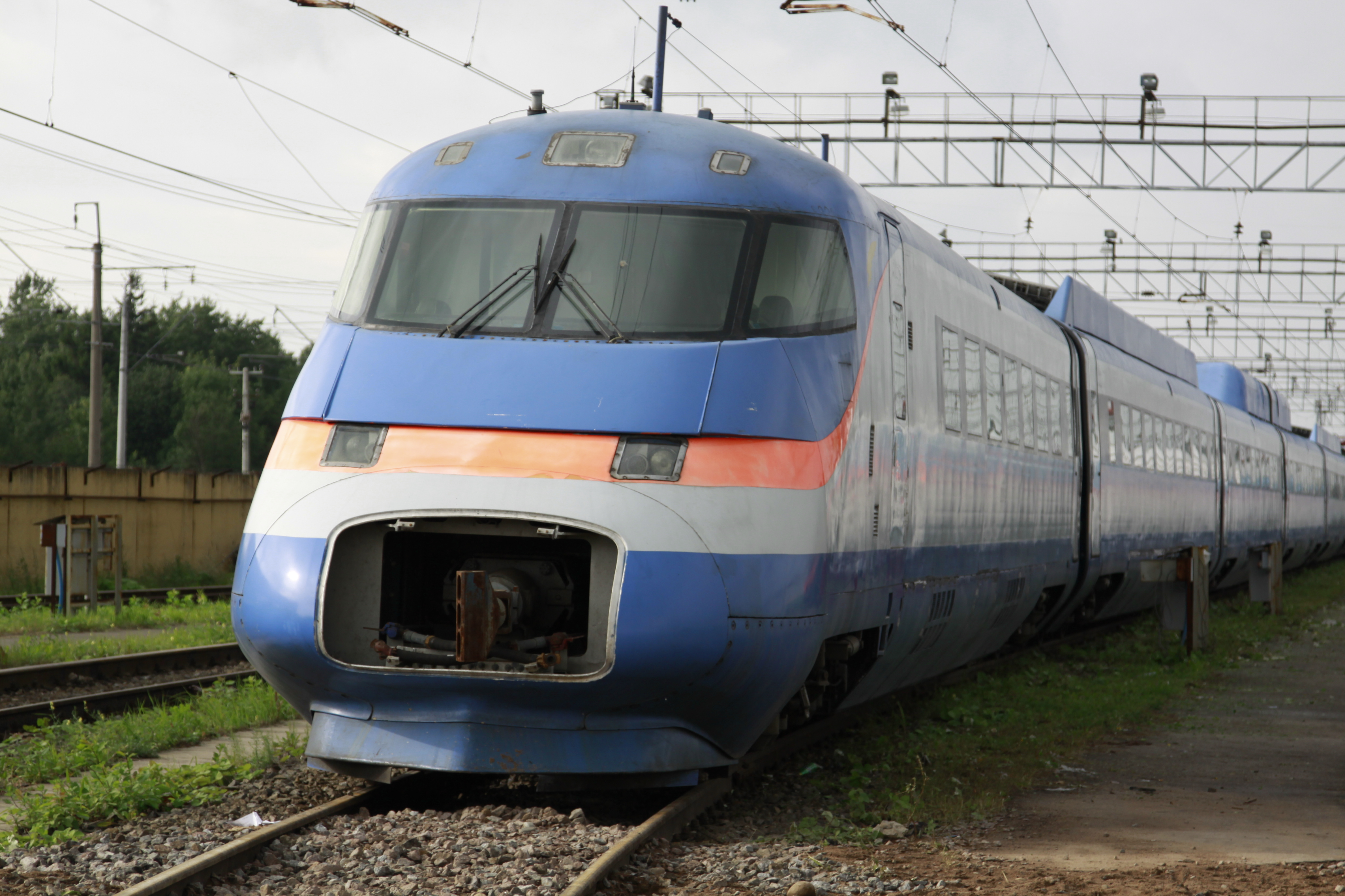 Sokol in depot